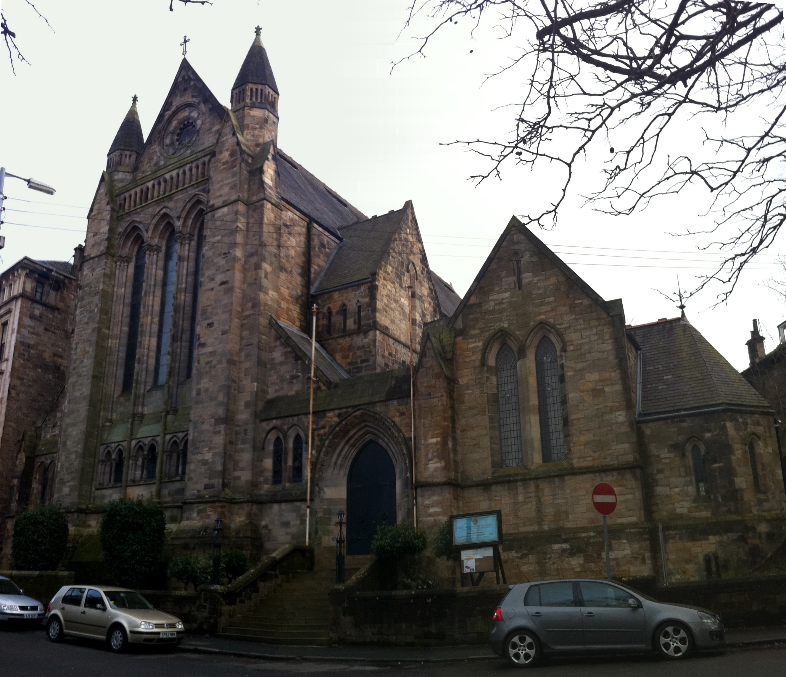 Greek Orthodox Cathedral of St Luke in the westend of Glasgow